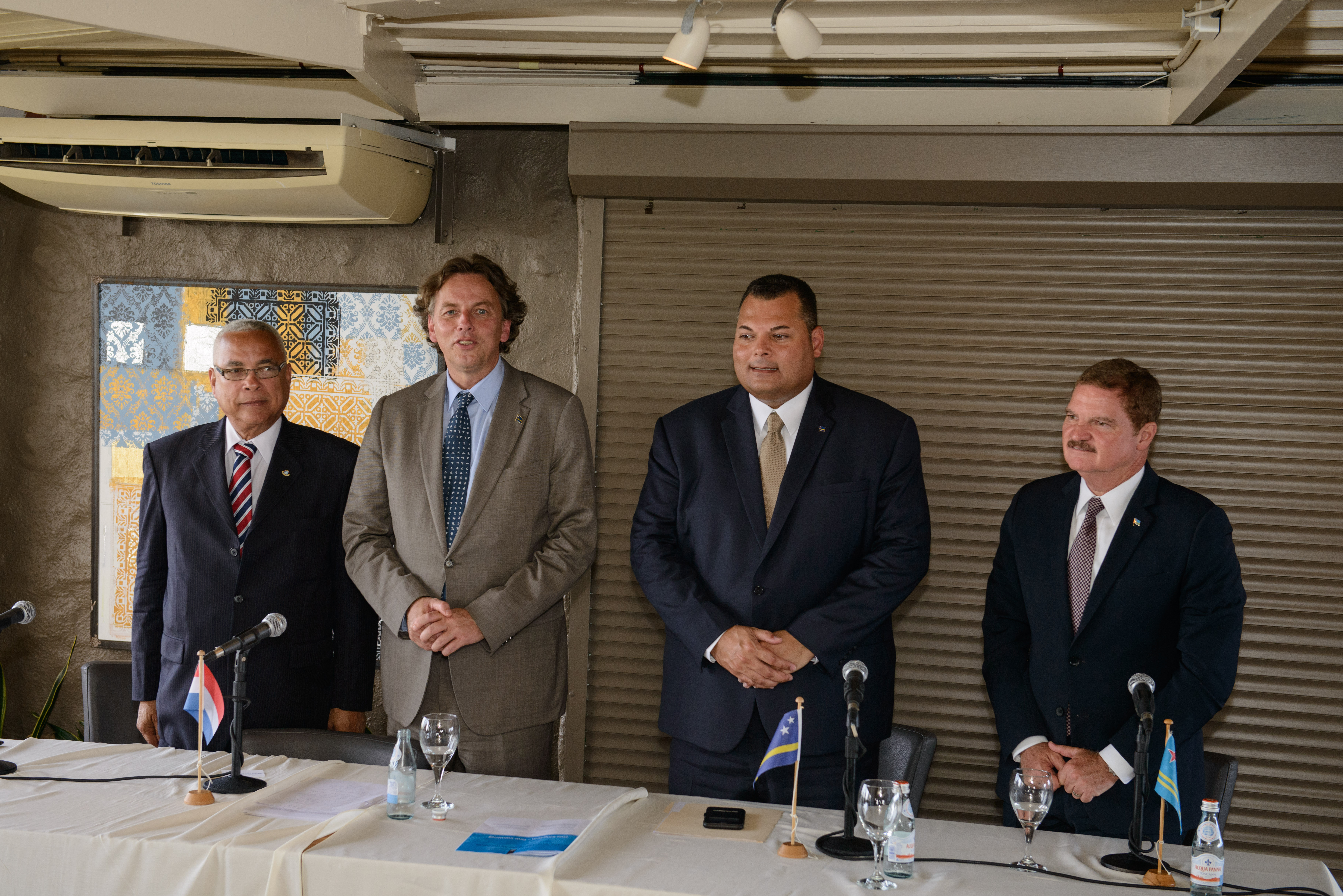 Prime Minister of Sint Maarten Marcel Gumbs; Minister of Foreign Affairs of the Netherlands Bert Koenders; Prime Minister of Curaçao Ivar Asjes; and Prime Minister of Aruba Mike Eman (left to right).